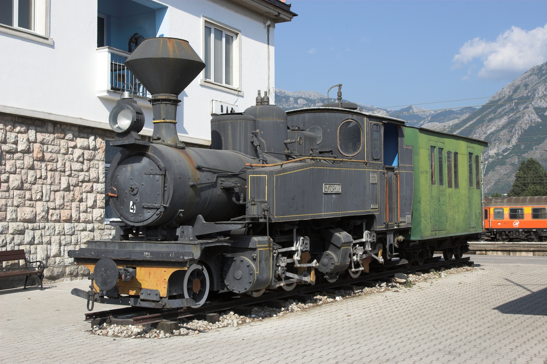 Locomotive "Sutorman" of the Bar - Virpazar narrow gauge railway (Antivari railway) on plinth in Bar station